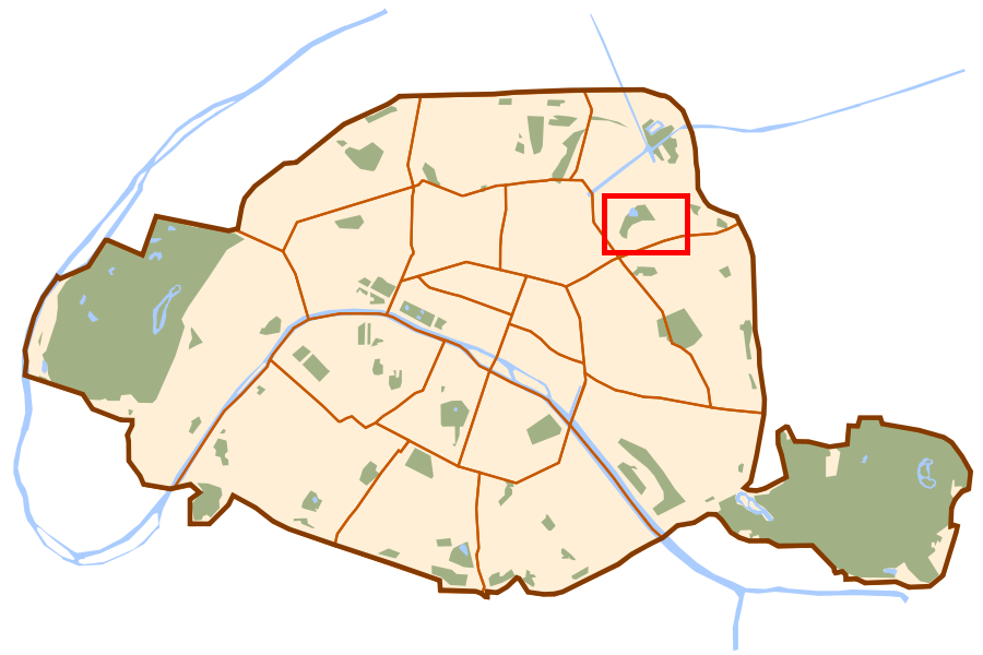 Locator map of Parc des Buttes-Chaumont, Paris. Based on the bigger map by Metropolitan.